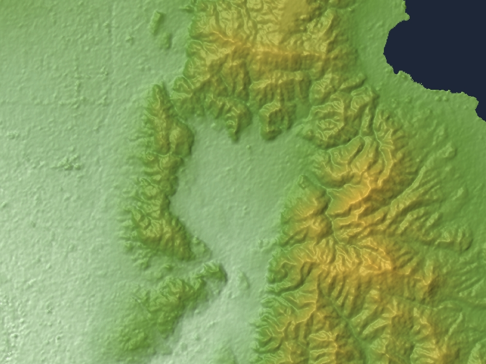 Yamashina Basin in Kyoto Prefecture, Honshu, Japan.